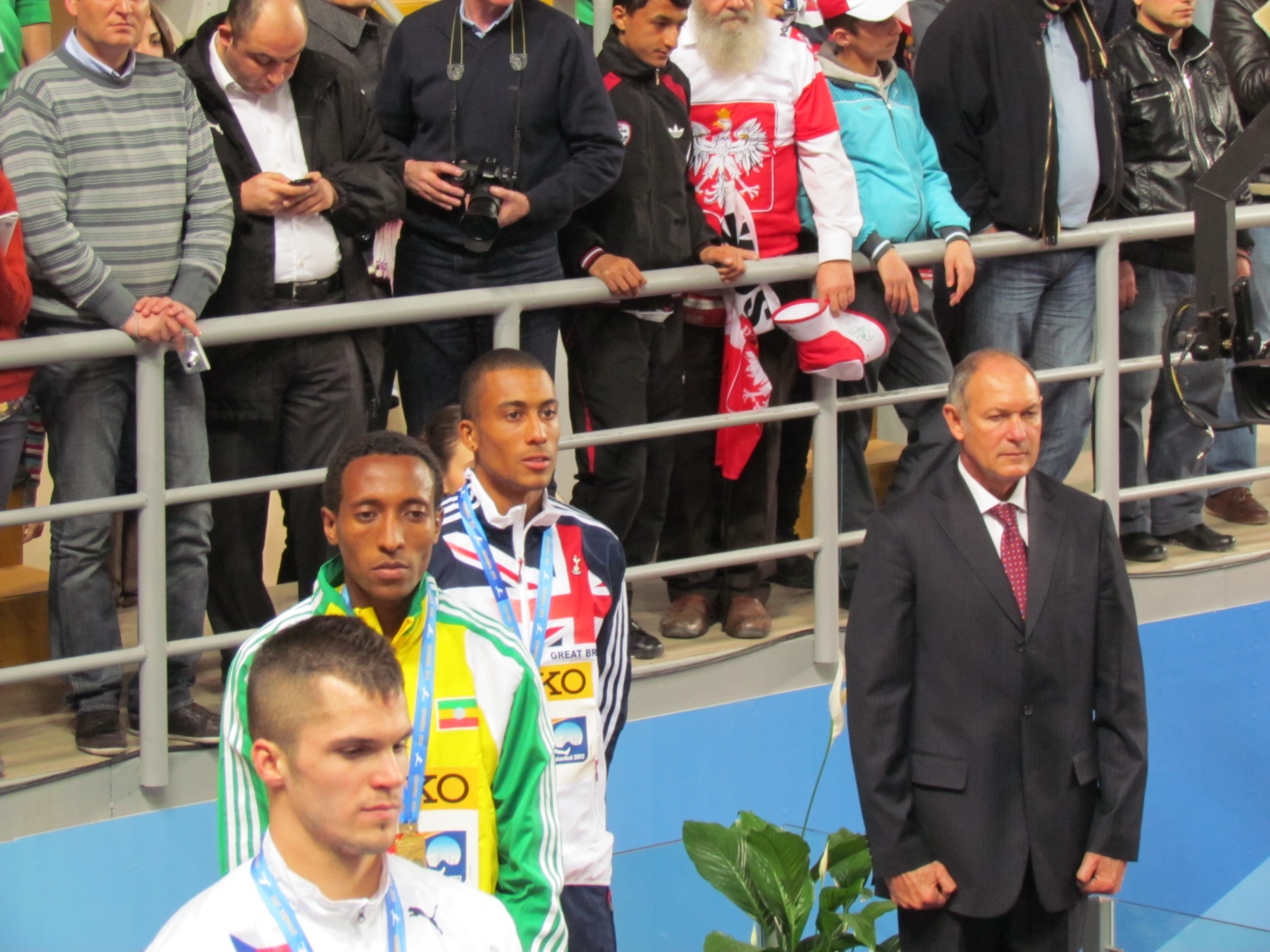 The 2012 IAAF World Indoor Championships in Athletics was the 14th edition of the global-level indoor track and field competition and was held between March 9–11, 2012 at the Ataköy Athletics Arena in Istanbul, Turkey. Jakub Holuša, Mohammed Aman, Andrew Osagie